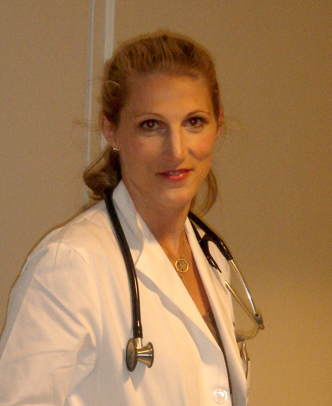 Headshot Vanessa Kerry